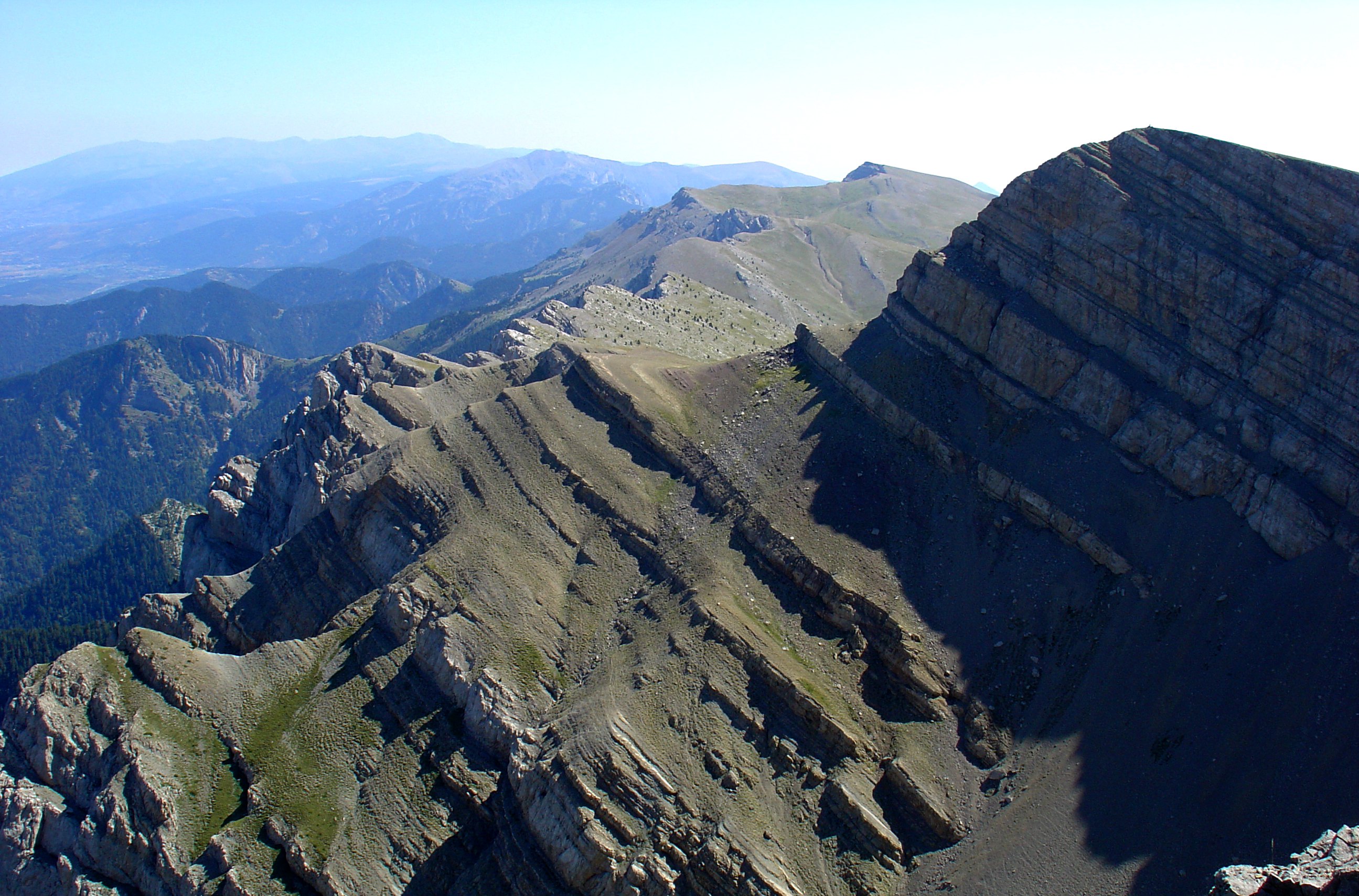 Geological formations in the peaks of Serra del Cadí, Catalonia. This is a a photo of a natural area in Catalonia, Spain, with id: ES510202